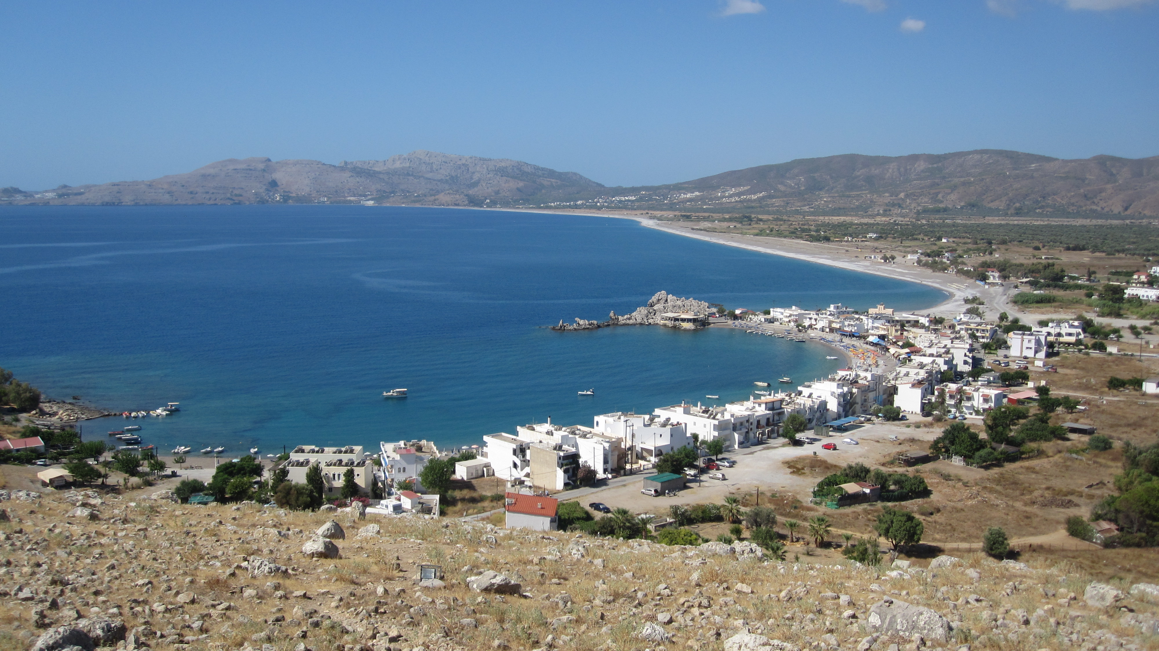 View of Haraki, Rhodes, Greece